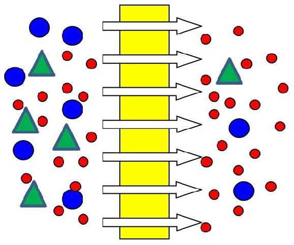 Dead-end